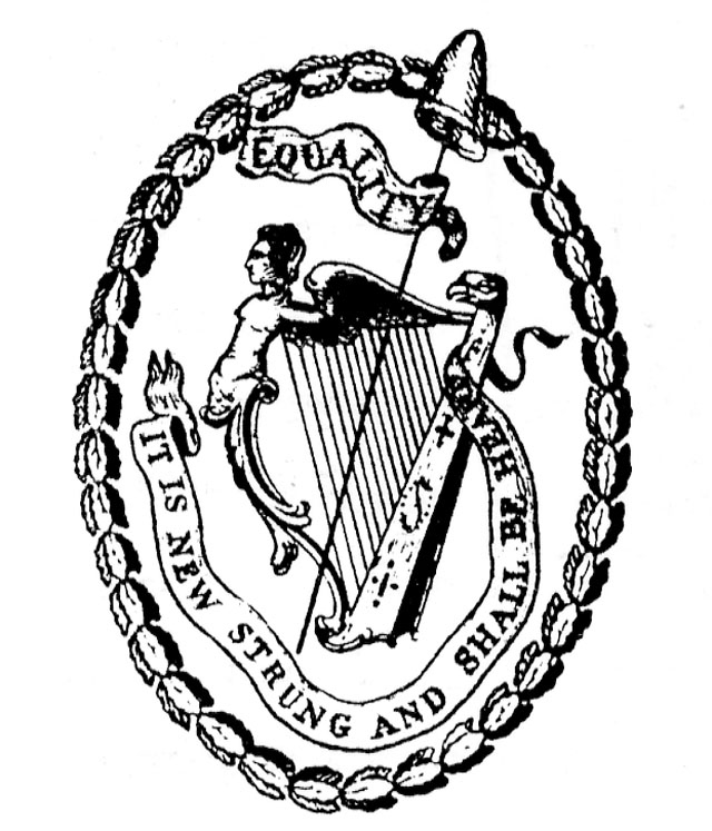 Seal of the United Irishmen (1791-1798)